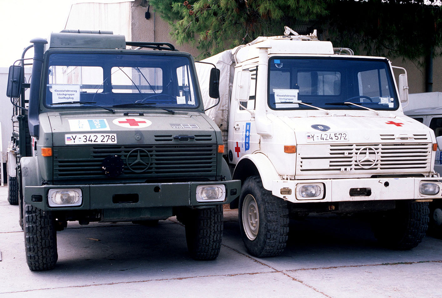 A sample of the trucks used by the personnel assigned to the German-French Mash Unit at a temporary naval base located in Troger (Trogir), Croatia, during Operation JOINT ENDEAVOR.